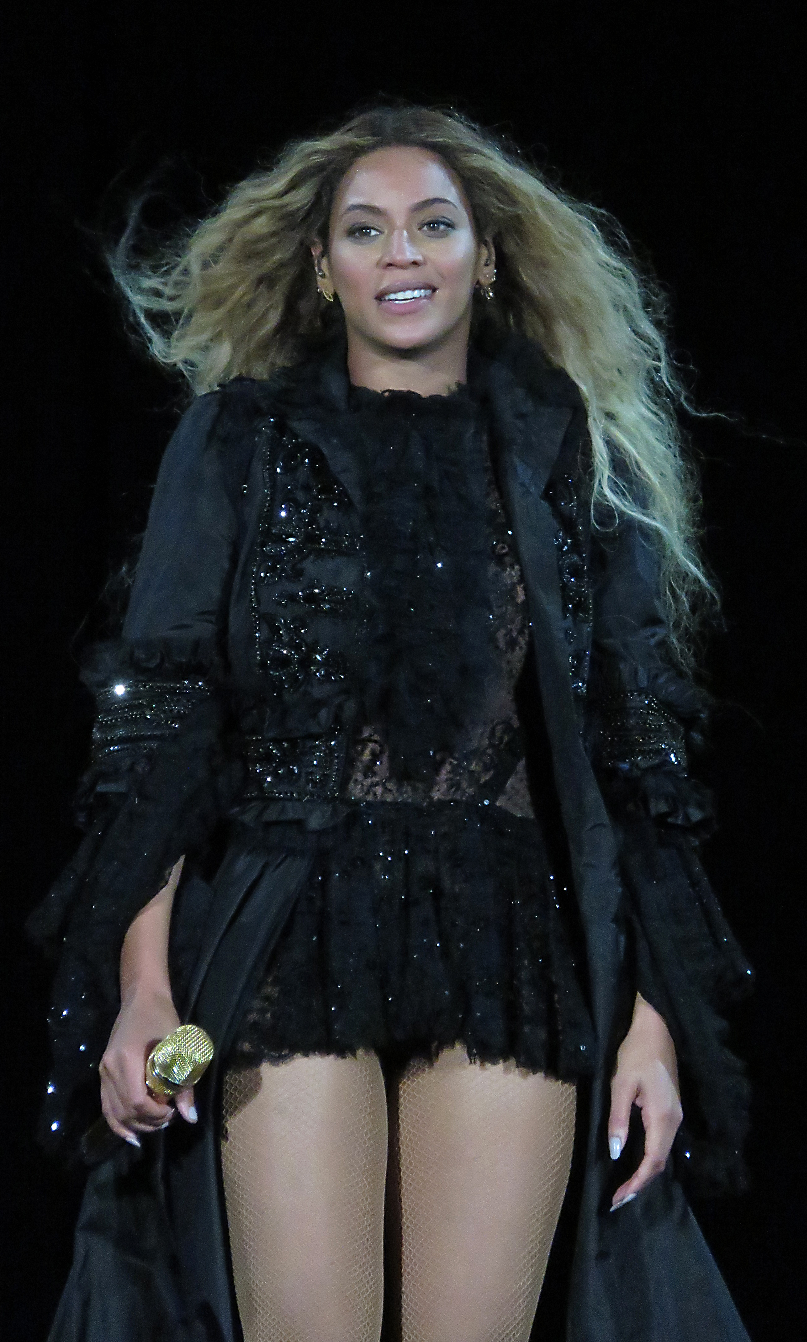 Beyoncé @ TCF Bank Stadium Minneapolis 5.23.16 Photo shot by Billy Briggs Photo Copyright (billy briggs) Please do not steal, download or re-post my images without prior consent & proper credit. BLOGS INCLUDED! Most images are available as prints, however some are not due to contractual agreements. If you're interested in licensing an image or purchasing a print, please feel free to email me.